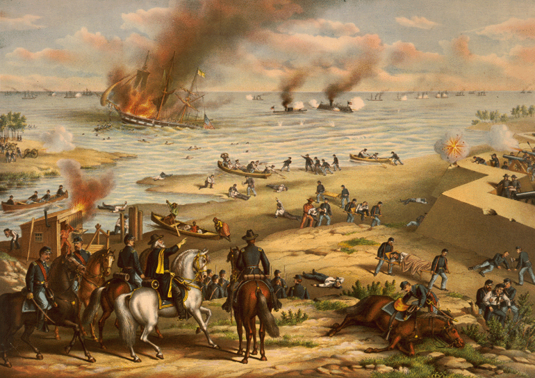 Battle between the Monitor and Merrimac--fought March 9th 1862 at Hampton Roads, near Norfolk, Va. CALL NUMBER: PGA - Kurz & Allison--Battle between the Monitor and Merrimac (D size) [P&P]. REPRODUCTION NUMBER: LC-USZC4-1752 (color film copy transparency). MEDIUM: 1 print : lithograph, color. CREATED/PUBLISHED: c1889. CREATOR: Kurz & Allison. Source: Library of Congress. Caption cropped.